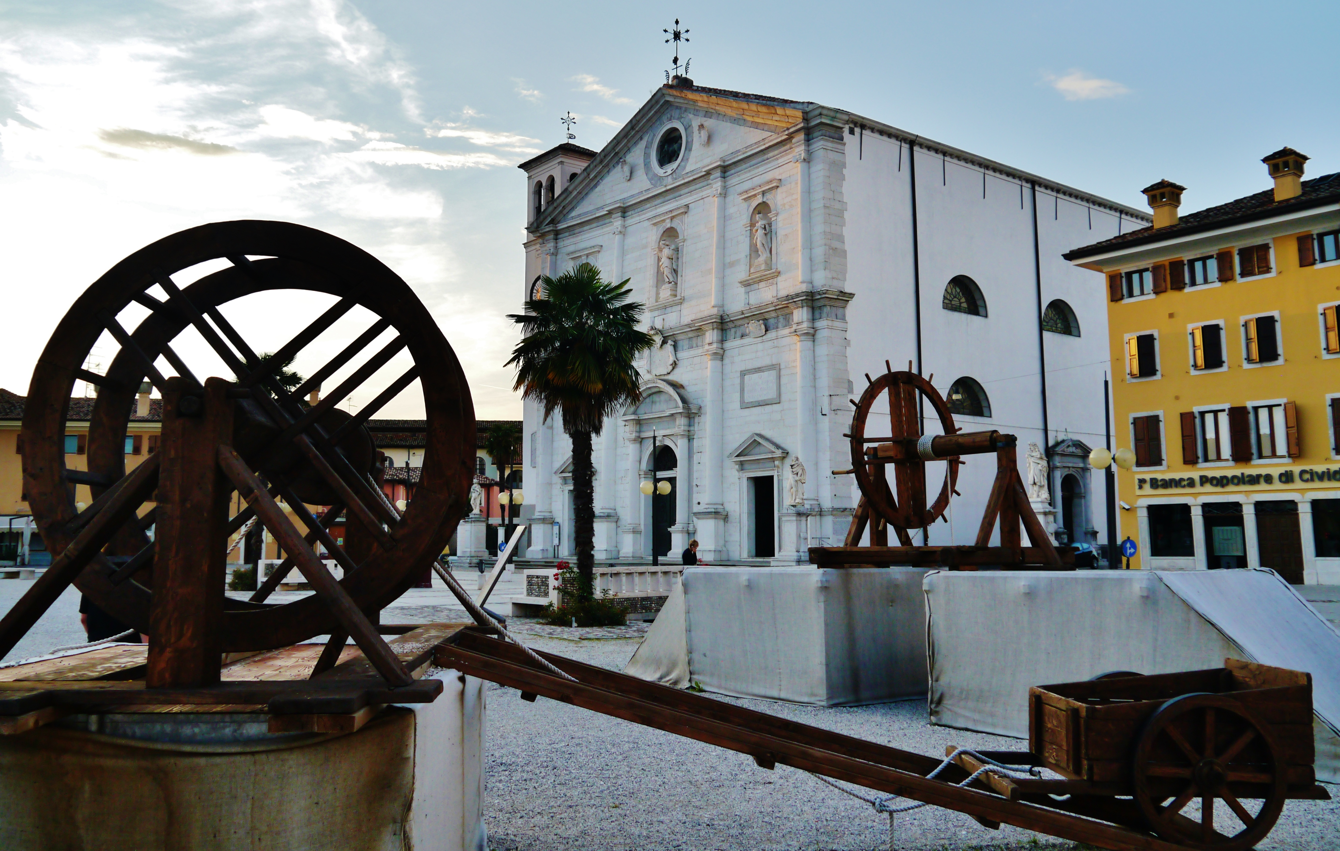 Piazza Grande with the Cathedral, Palmanova, Friuli-Venezia Giulia, Italy